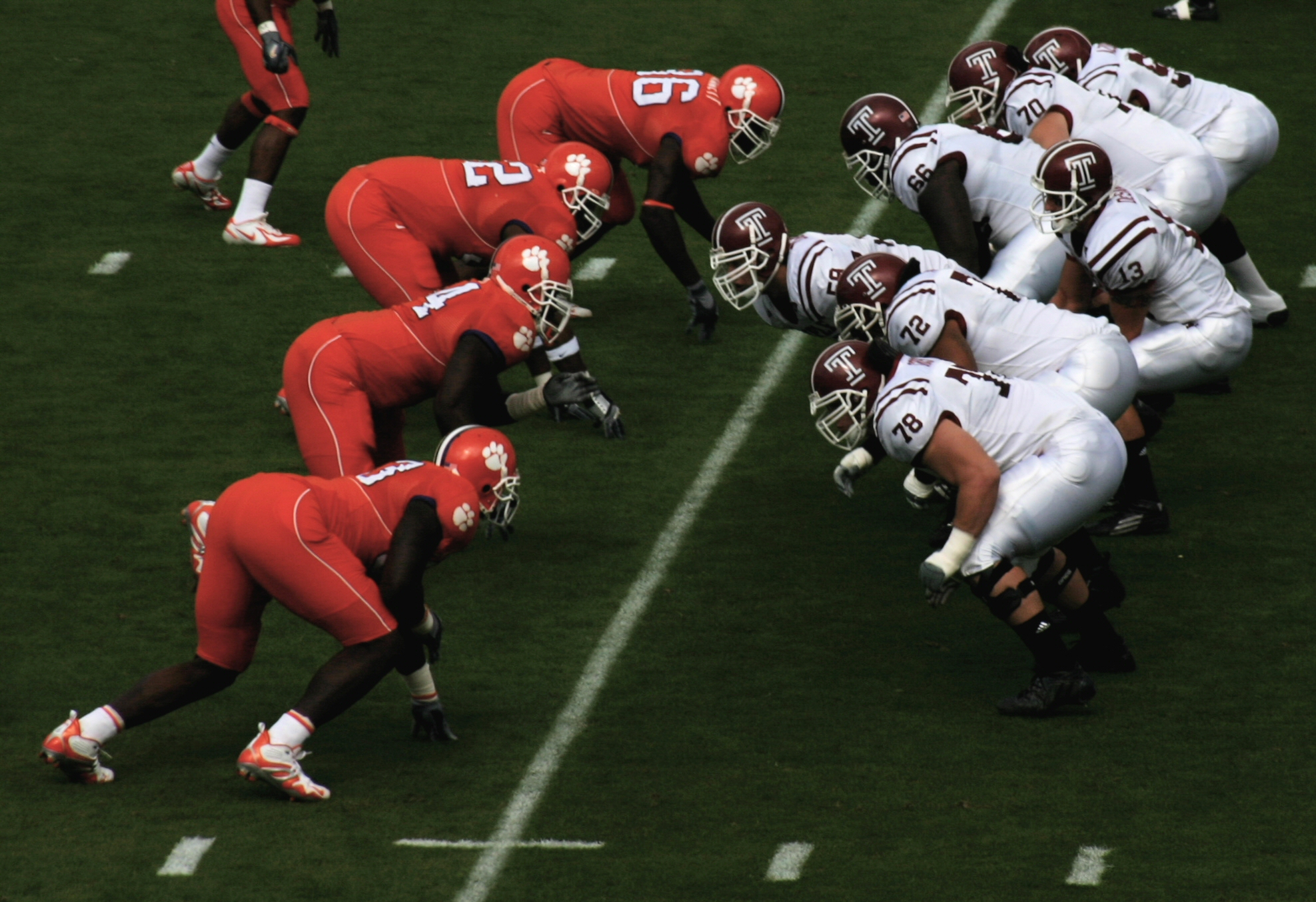 Clemson University and Temple University